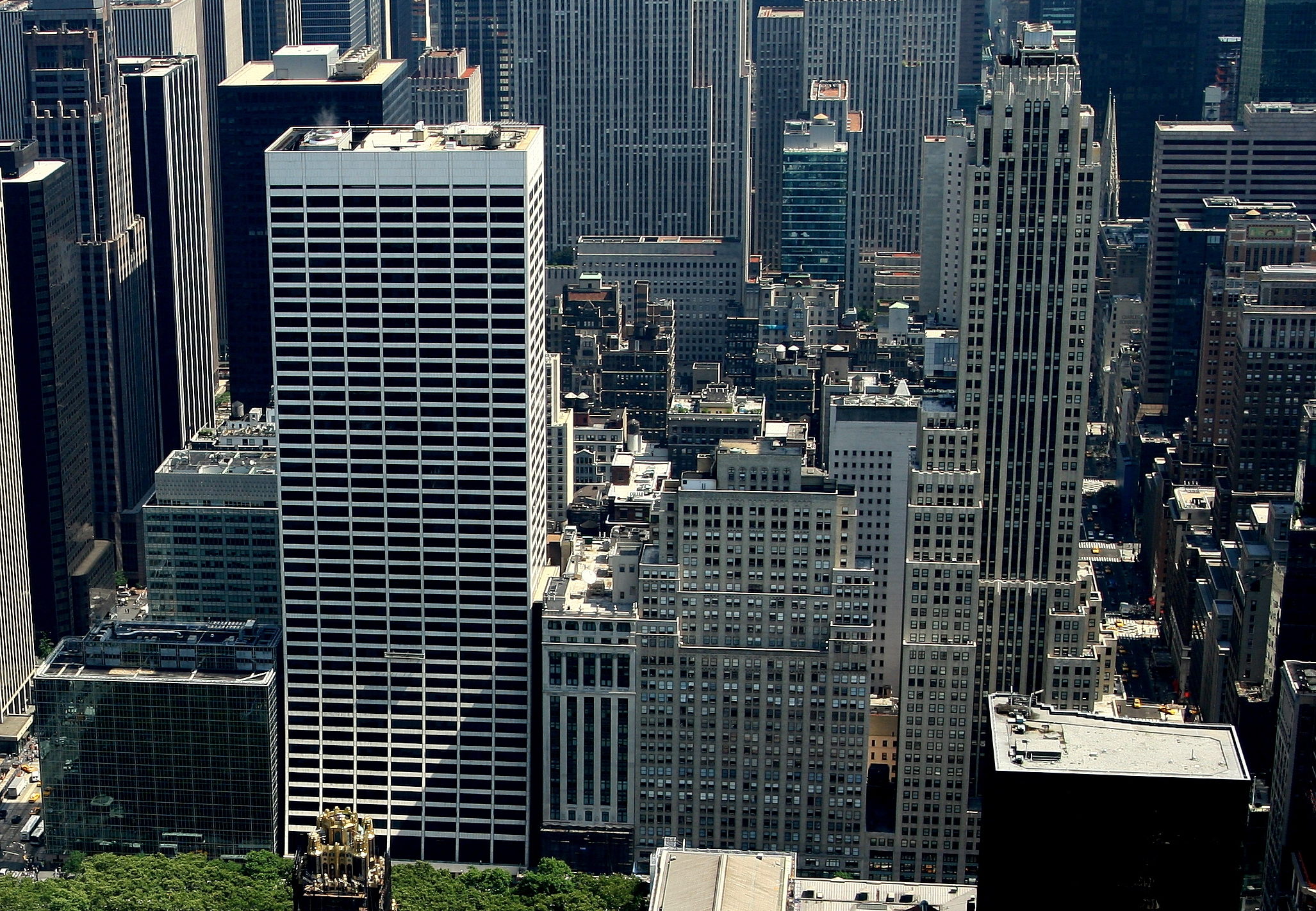 Derivative work by cropping the image sourced, named in Commons as Bryant Park, New York.jpg